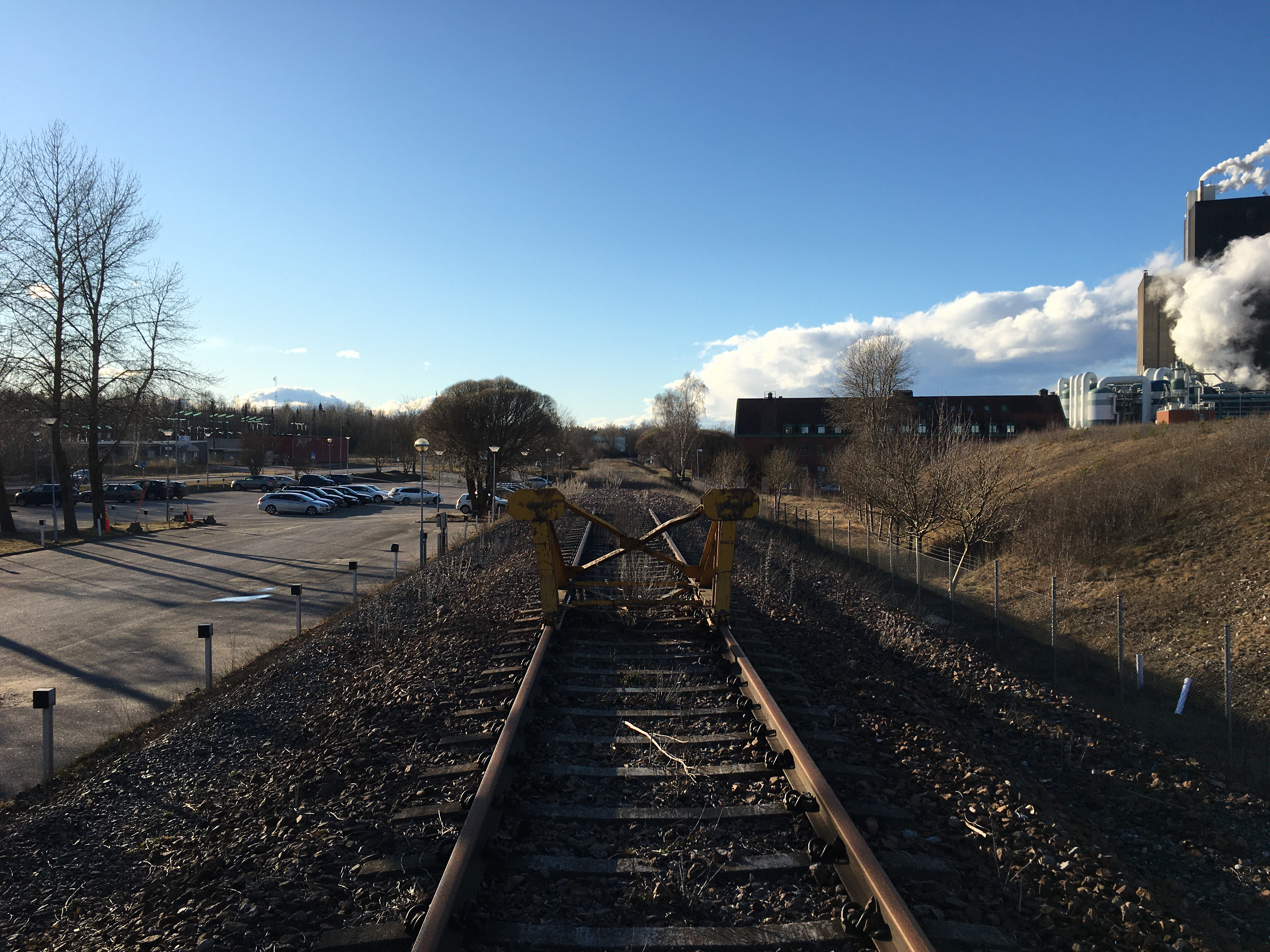 Buffer stop at Skutskär industrial area. A remain of the old east coast line railway which passed the factory area.